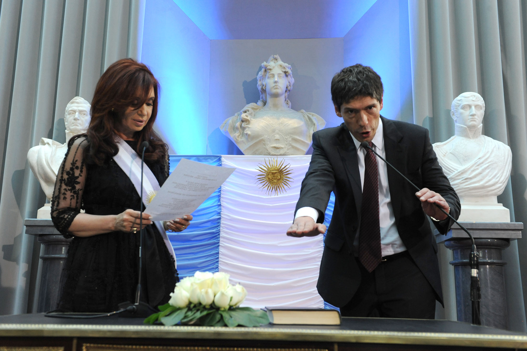 Juan Manuel Abal Medina sworns as Chief of the Cabinet of Ministers of Argentina, the 10 of December of 2011.